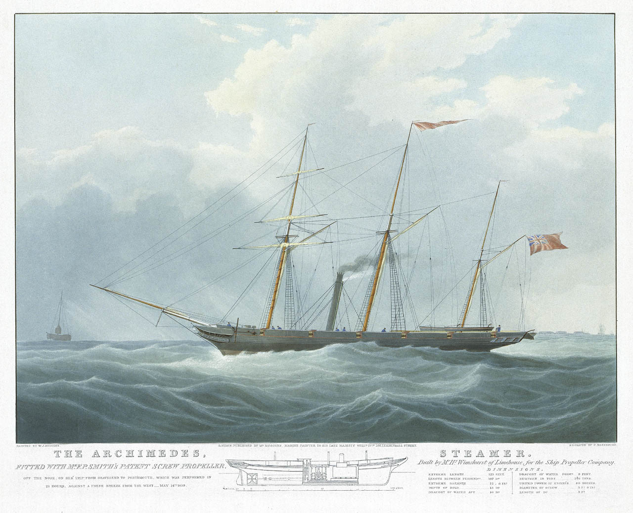 The Archimedes, fitted with Mr. F.P. Smith's Patent Screw Propeller... off The Nore, on her trip from Gravesend to Portsmouth... May 14th 1839 A coloured aquatint, which is apparently one of a pair (see also PAH0211), showing 'Archimedes' in port-broadside view with her sails furled. 'Archimedes' was fitted with Francis Pettit Smith's revolutionary propulsion system. Below the image is a drawing showing a cross-section of the vessel and either side of this are inscriptions. To the left, it reads: "The Archimedes ... Steamer. / fitted with Mr F.P. Smith's patent screw propellor / off the Nore, on her trip from Gravesend to Portsmouth, which was performed in 21 hours, against a fresh breeze from the West ... May 14th 1839." To the right, it reads: "Built by Mr. Hy.Wimshurst of Limehouse for the Ship Propeller Company." Beneath this is a list of dimensions. 'Archimedes' is notable for being the world's first steamship to be driven by a screw propeller. She subsequently had a profound influence on ship development, encouraging the adoption of screw propulsion by the Royal Navy, Hand-coloured.